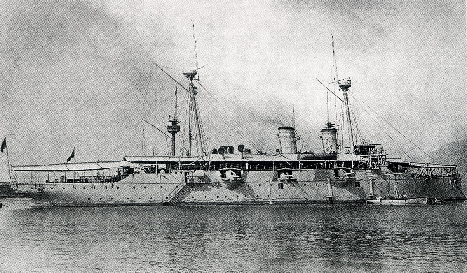 The protected cruiser Lepanto, was launched in 1893 and retired 1908